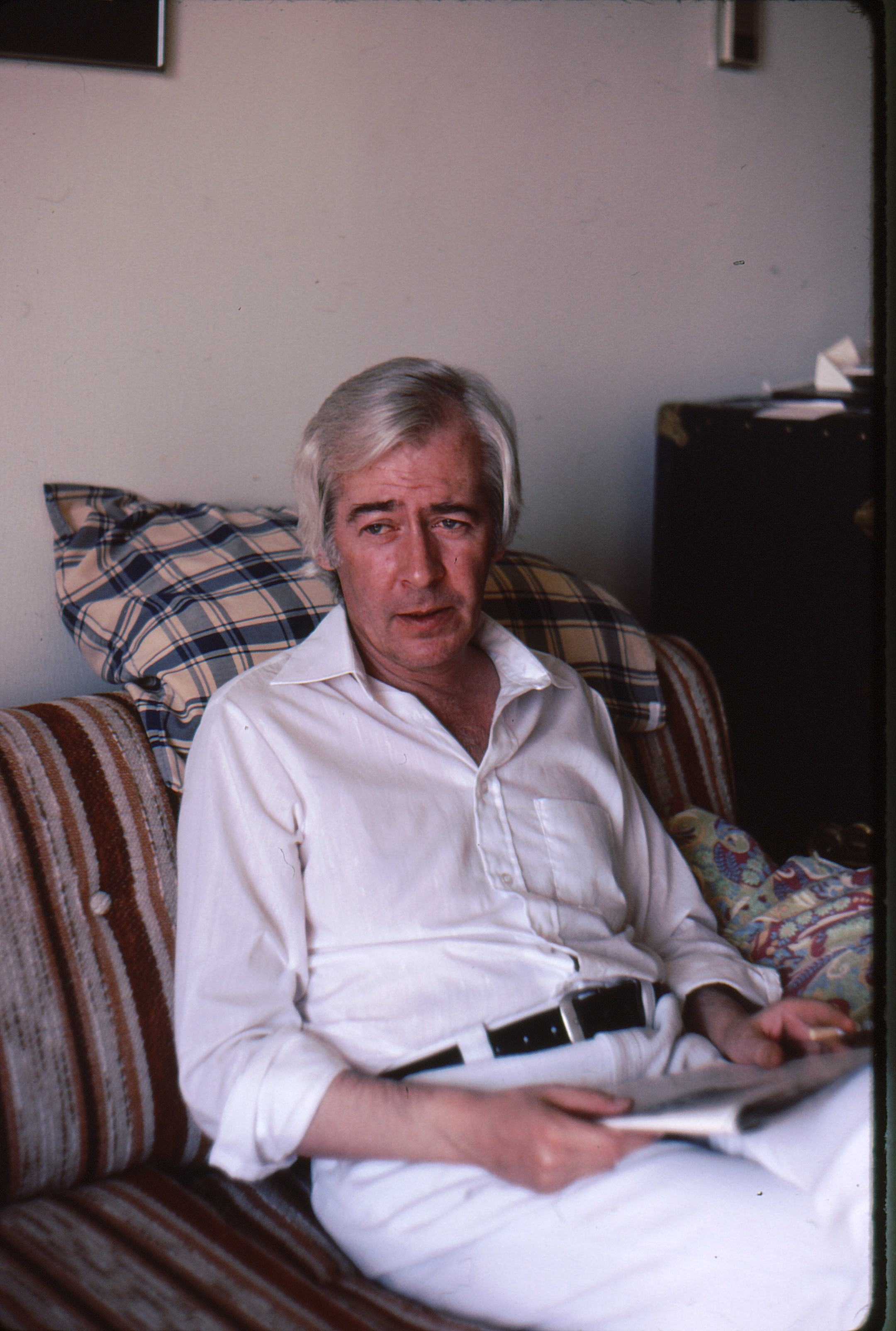 Canadian poet John Newlove at his residence in Regina, Saskatchewan, June 1980